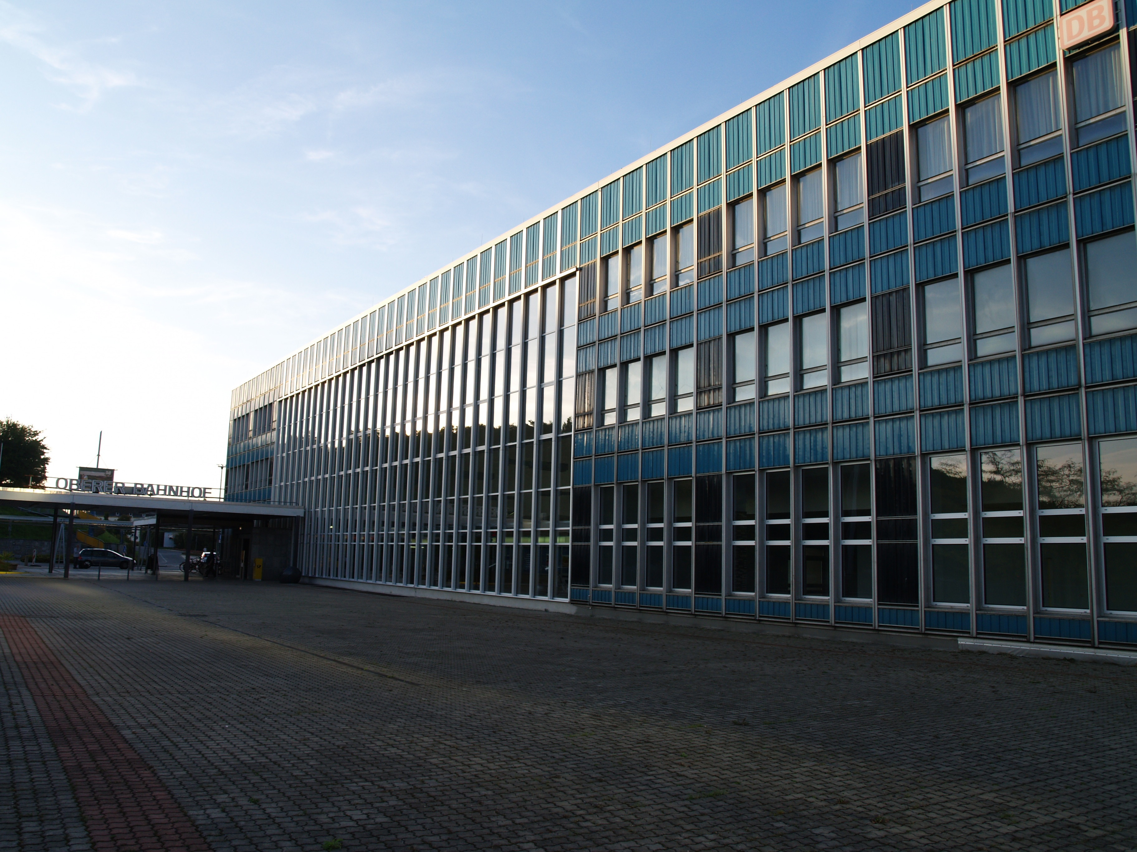 Oberer station in Plauen